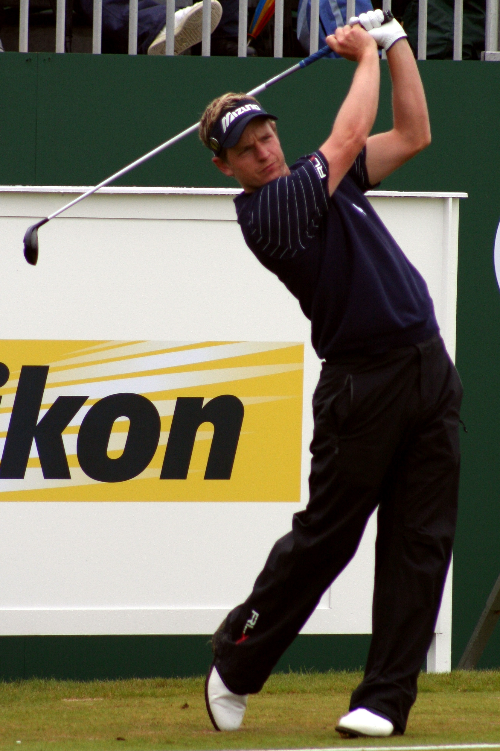 The Open, Carnoustie, Wednesday 18 July 2007.